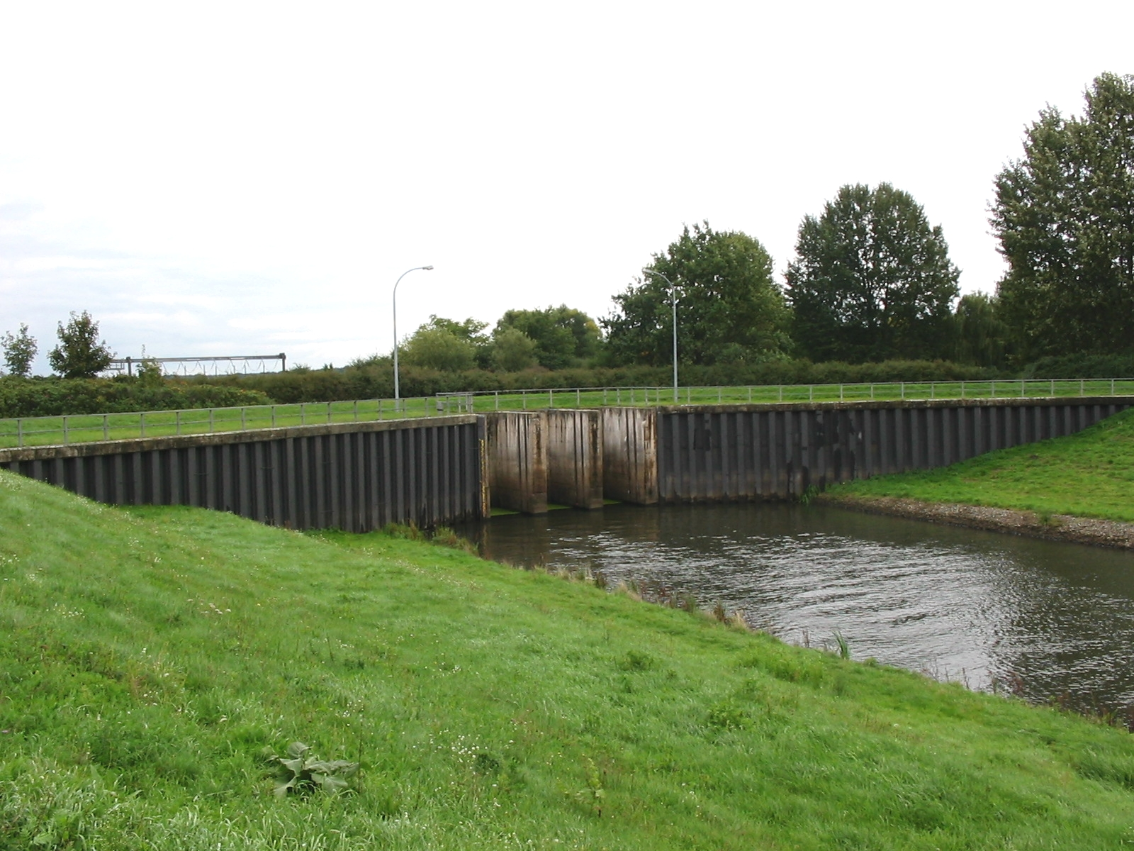 Löcknitz underpasses the Eldekanal near Dömitz, Mecklenburg-Vorpommern, Germany